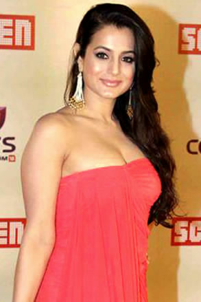 Ameesha Patel at 18th Annual Colors Screen Awards 2012